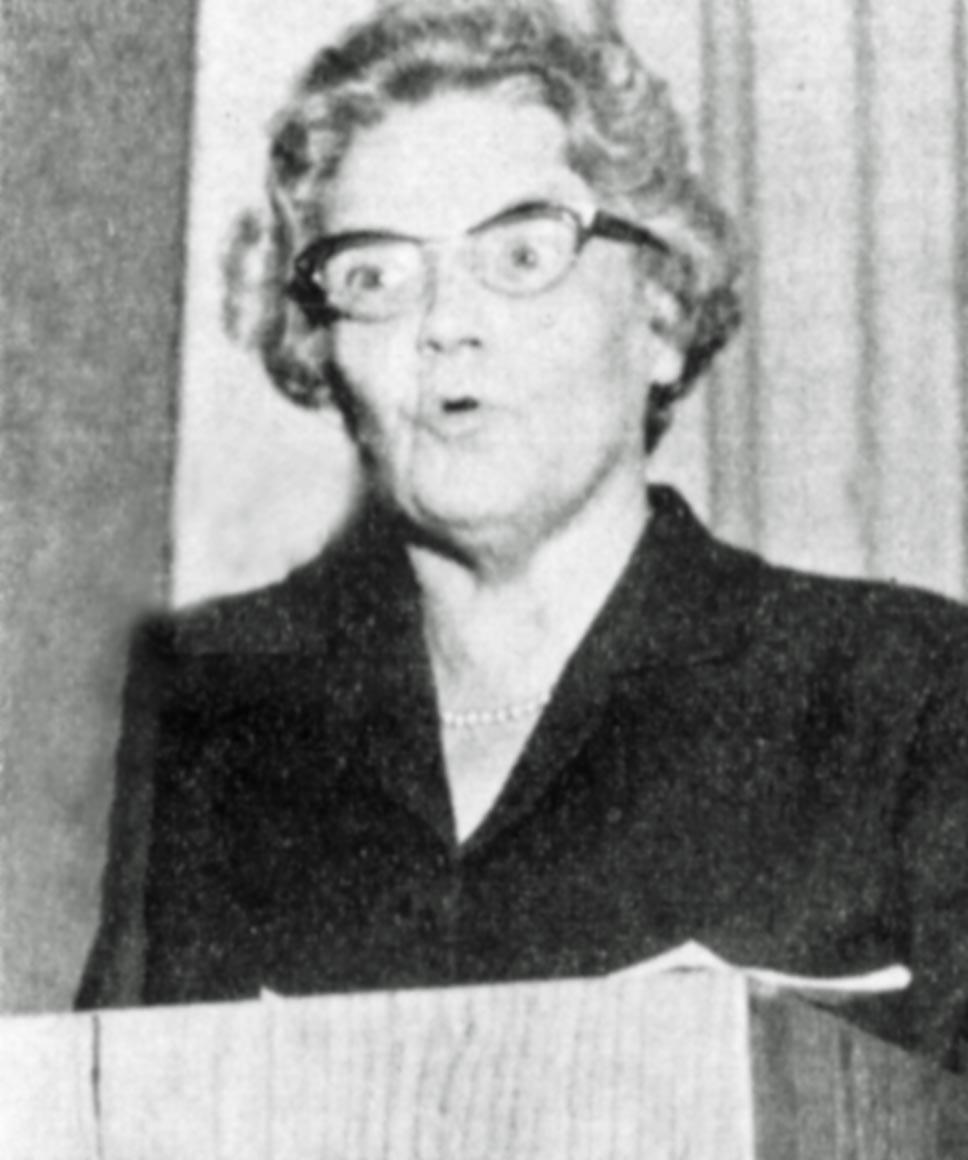 Kerttu Varjo (1910–?), Finnish expert on youth social work, giving a speech in 1965